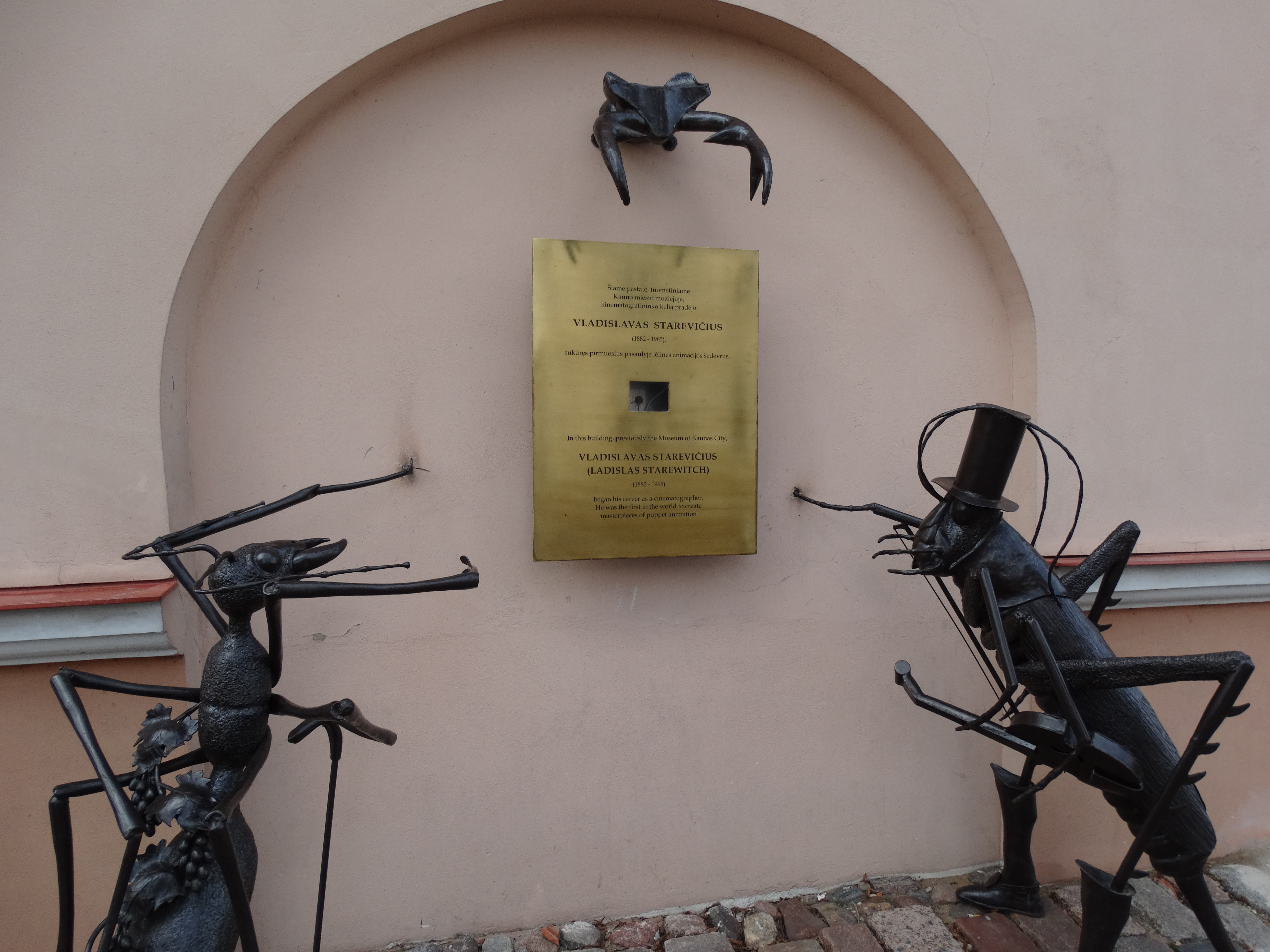 Memorial plaque to Władysław Starewicz, Rotušės a., Kaunas, Lithuania